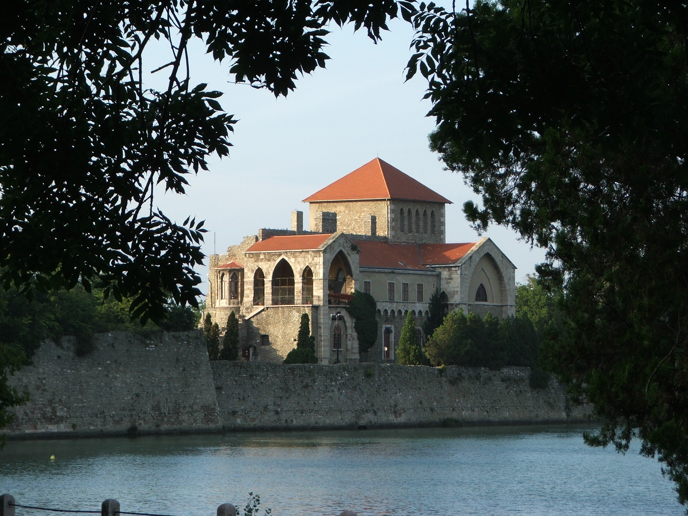 Tata castle Photo: József Süveg (2005)